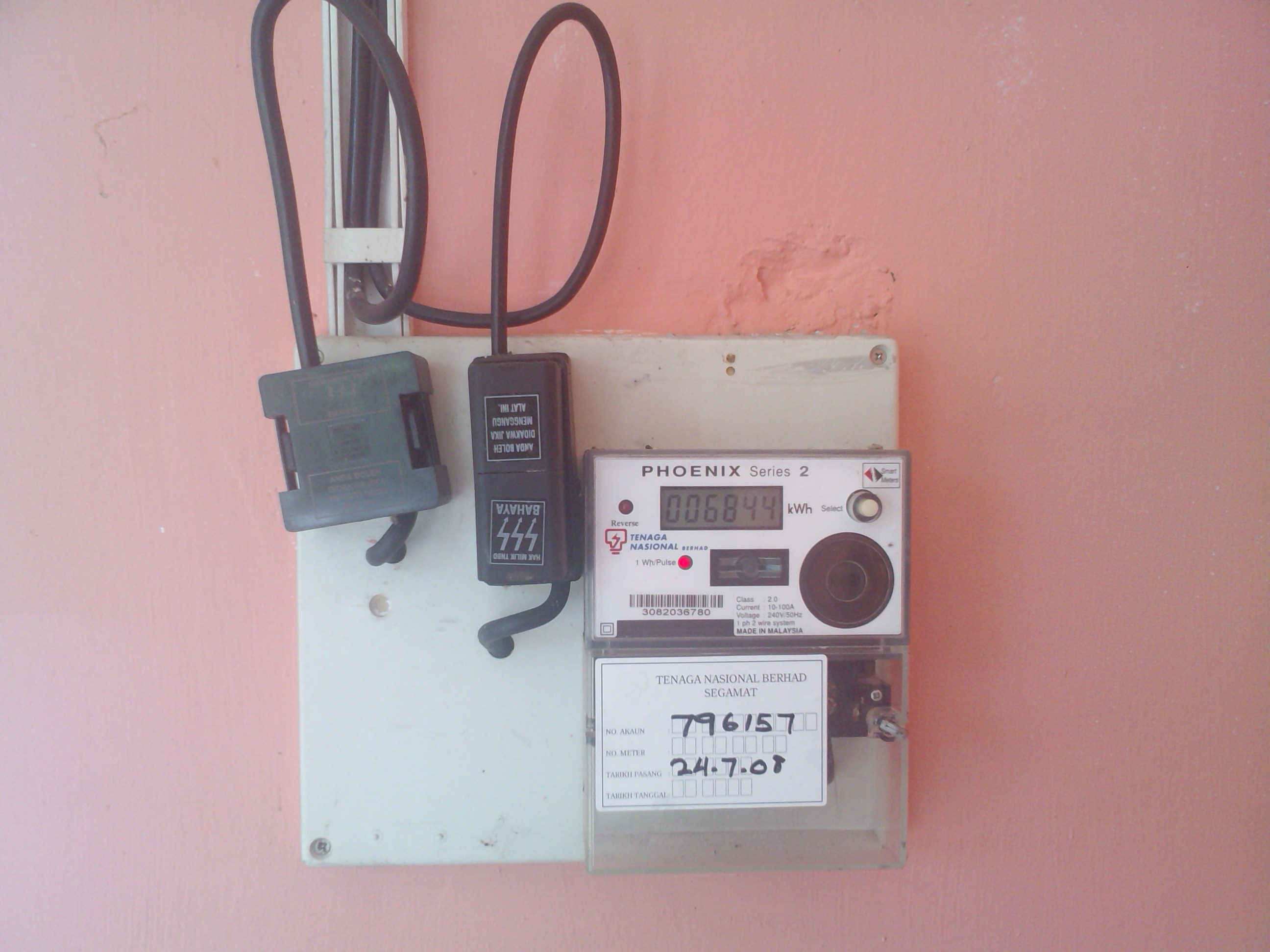 Electricity meter at the author's house in Segamat, Johor, Malaysia.